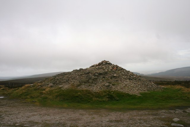 Cairn o Mount Situated just above the popular viewpoint this cairn marks the high point of the Old Mounth road from Aberdeenshire to the Mearns.